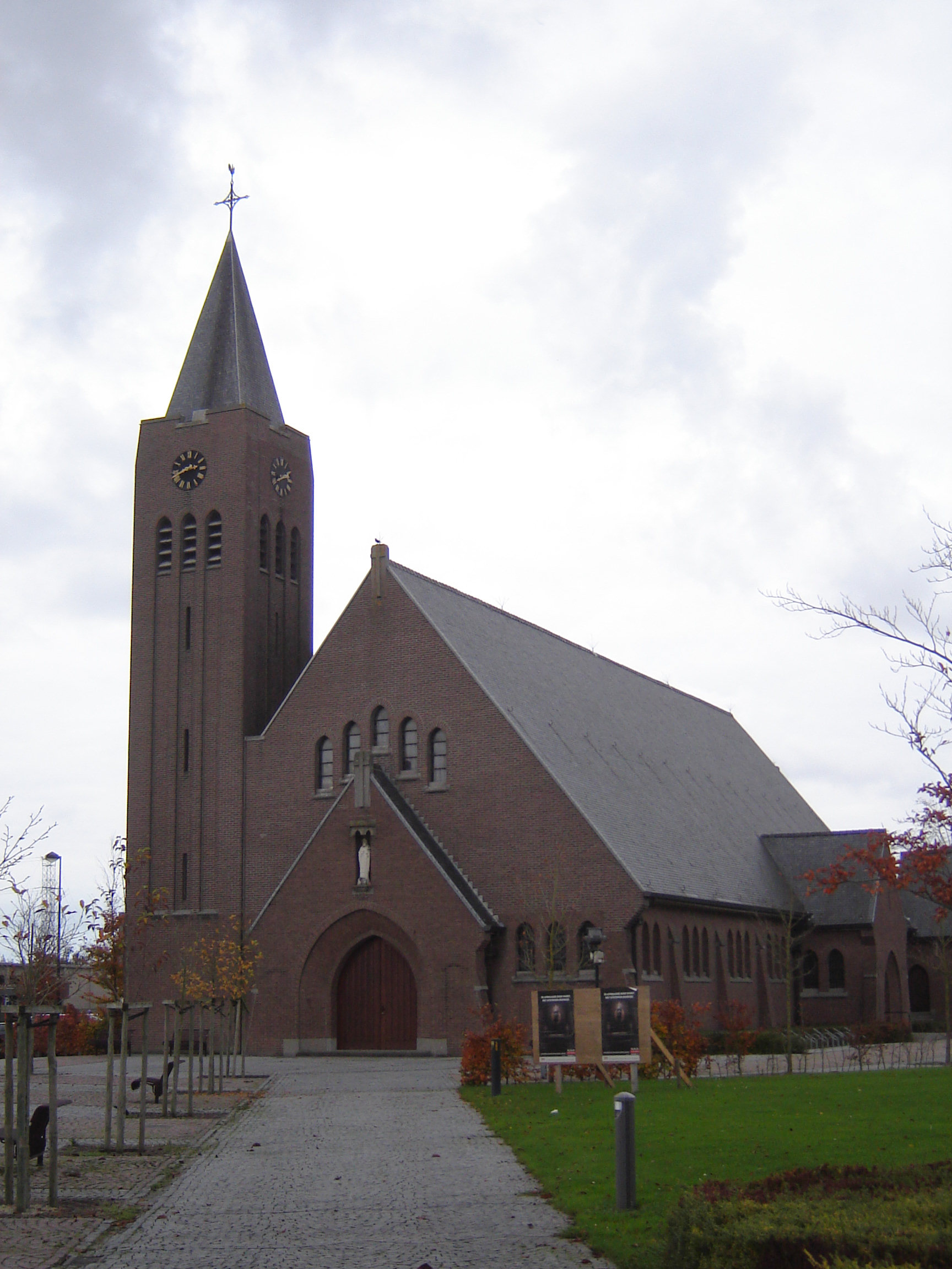 Church of Saint Eligius in hamlet De Leeuw/Zuidwege in Zedelgem. Zedelgem, West Flanders, Belgium